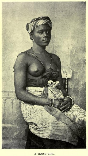 “A Temne Girl” - from the book Human Leopards; an account of the trials of Human Leopards before the Special Commission Court.